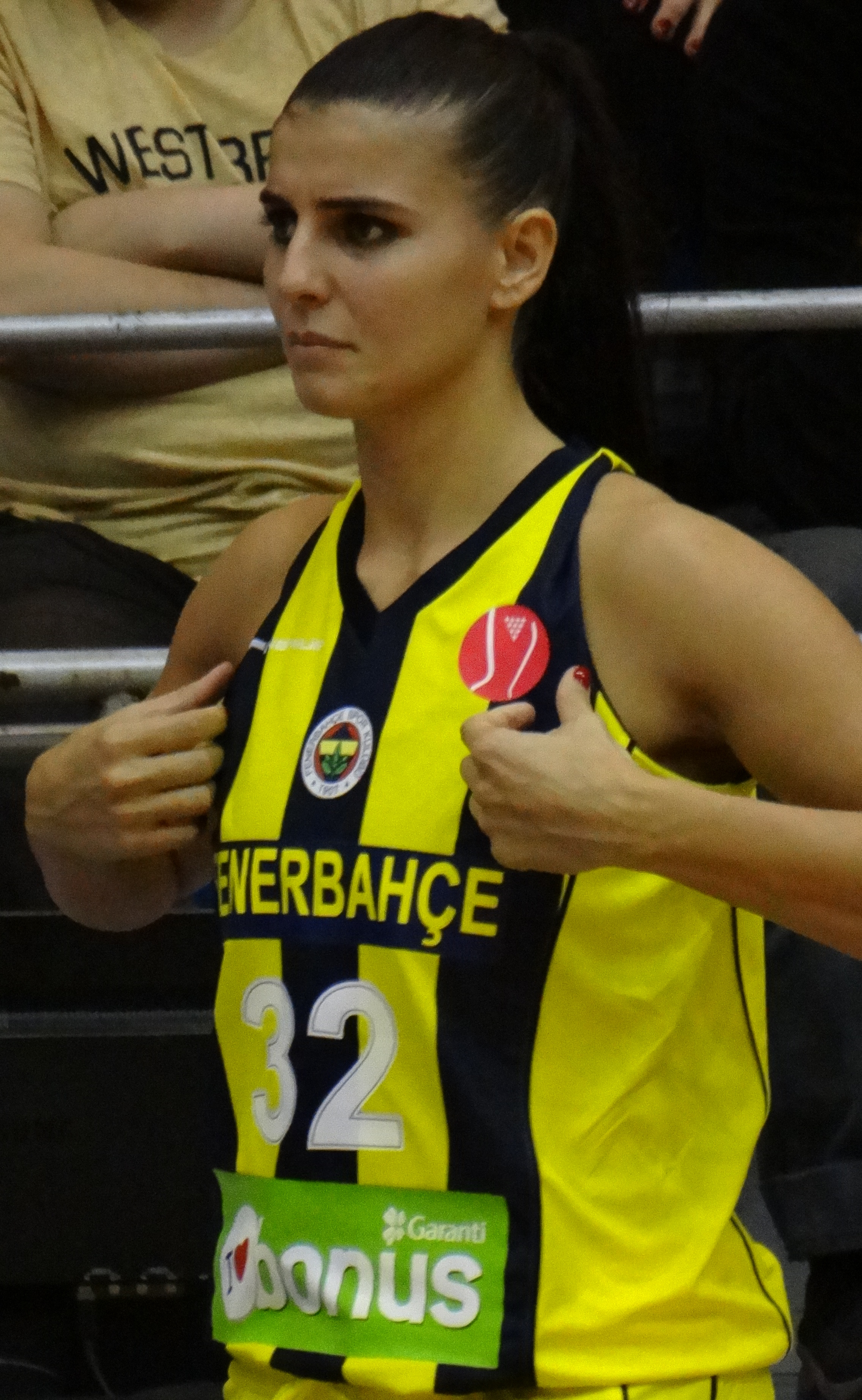 Ana Dabović Fenerbahçe Women's Basketball vs BC Nadezhda Orenburg EuroLeague Women 20171011